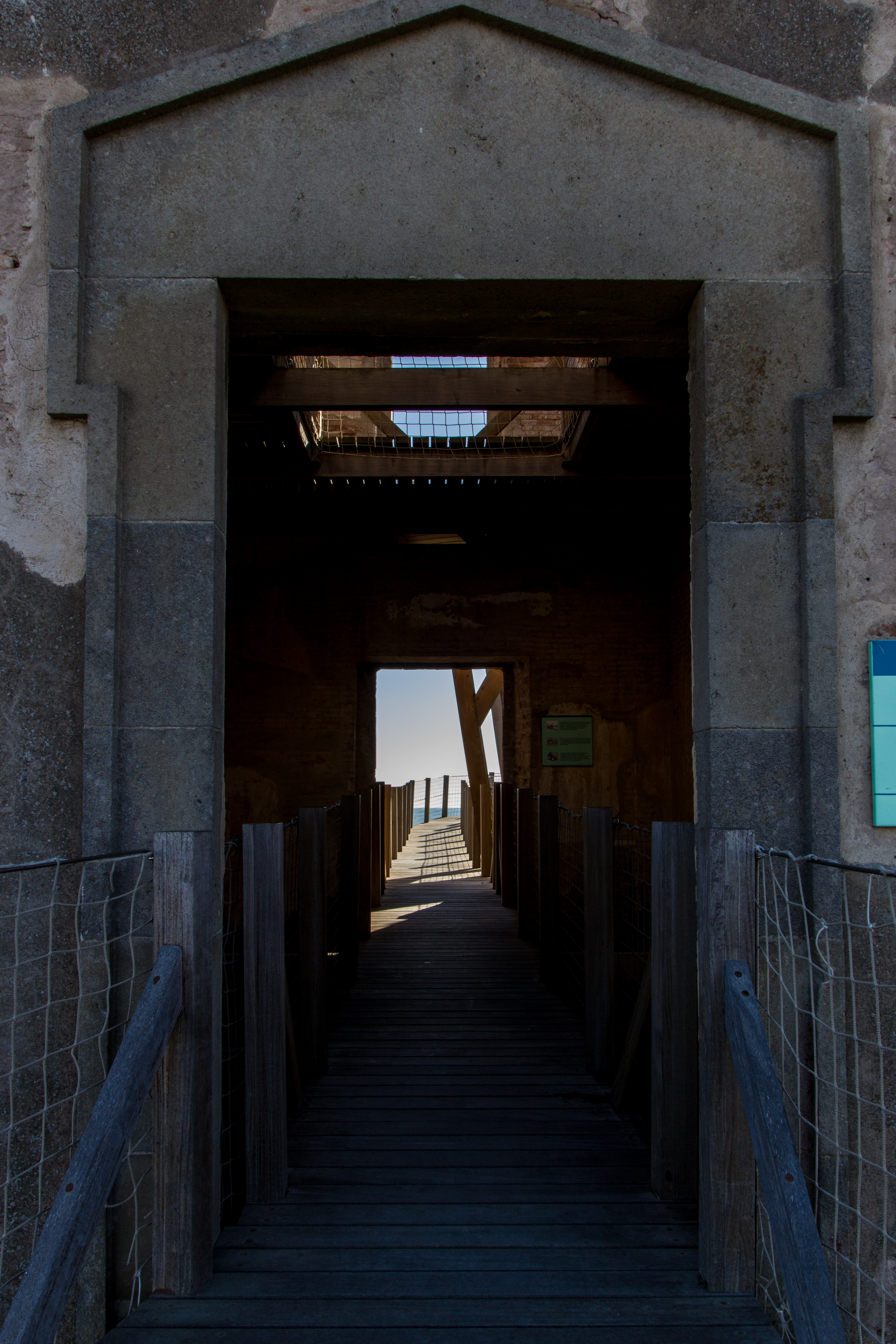 Interior view of the Semàfor